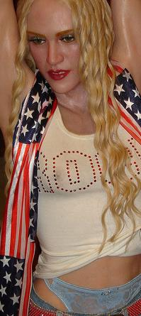 Madonna Wax Museo de cera Mexico